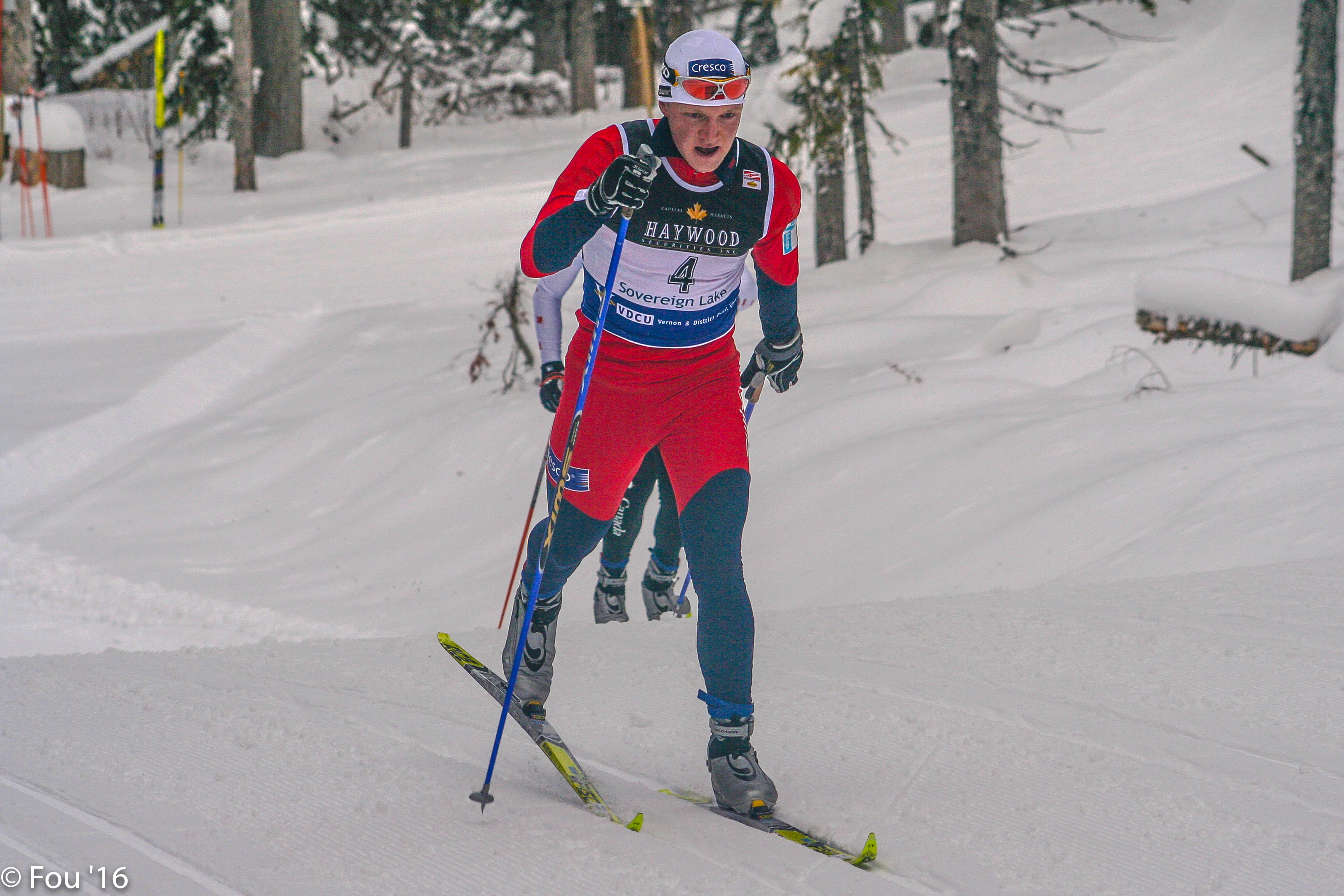 Norwegian cross-country skier Tore Ruud Hofstad at the FIS World Cup Men’s 2x15 km Pursuit in Vernon, British Columbia, Canada.